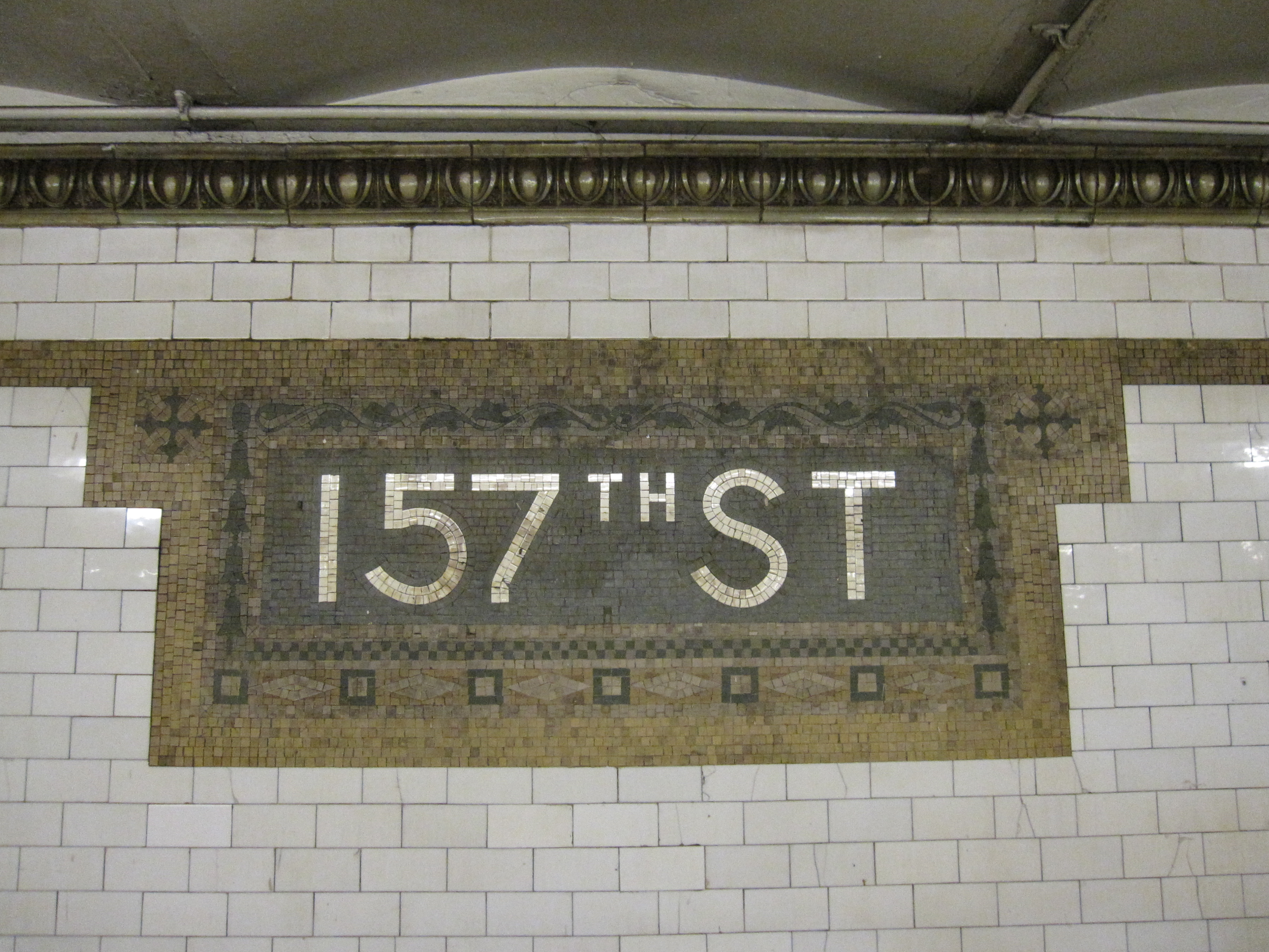 157th Street (IRT Broadway – Seventh Avenue Line)